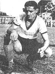 Agnolin during his time as a Temperley player